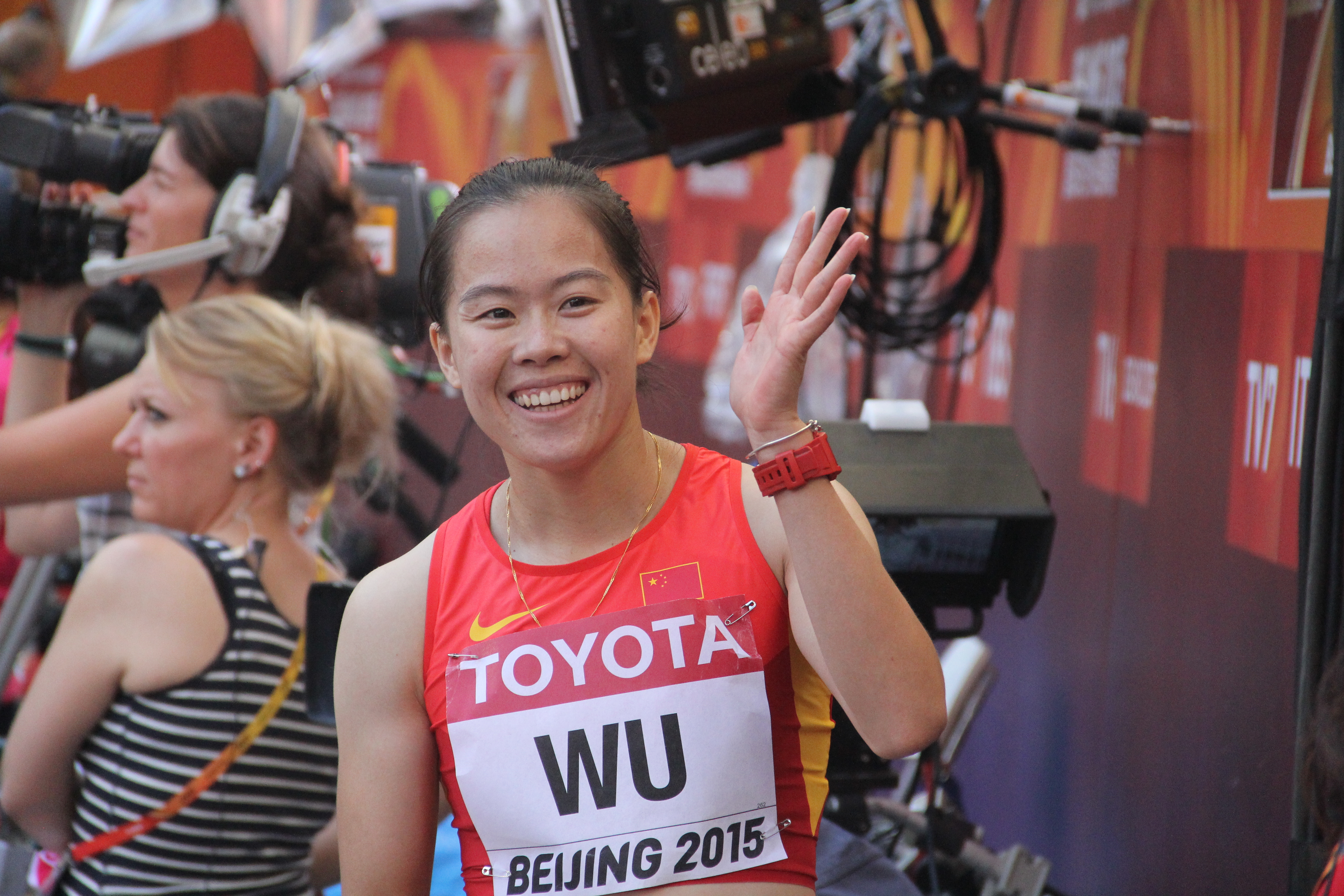 2015 World Championships in Athletics